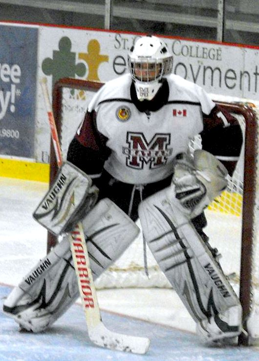 This photo was taken by Devan Mighton during the 2013-14 GOJHL season.